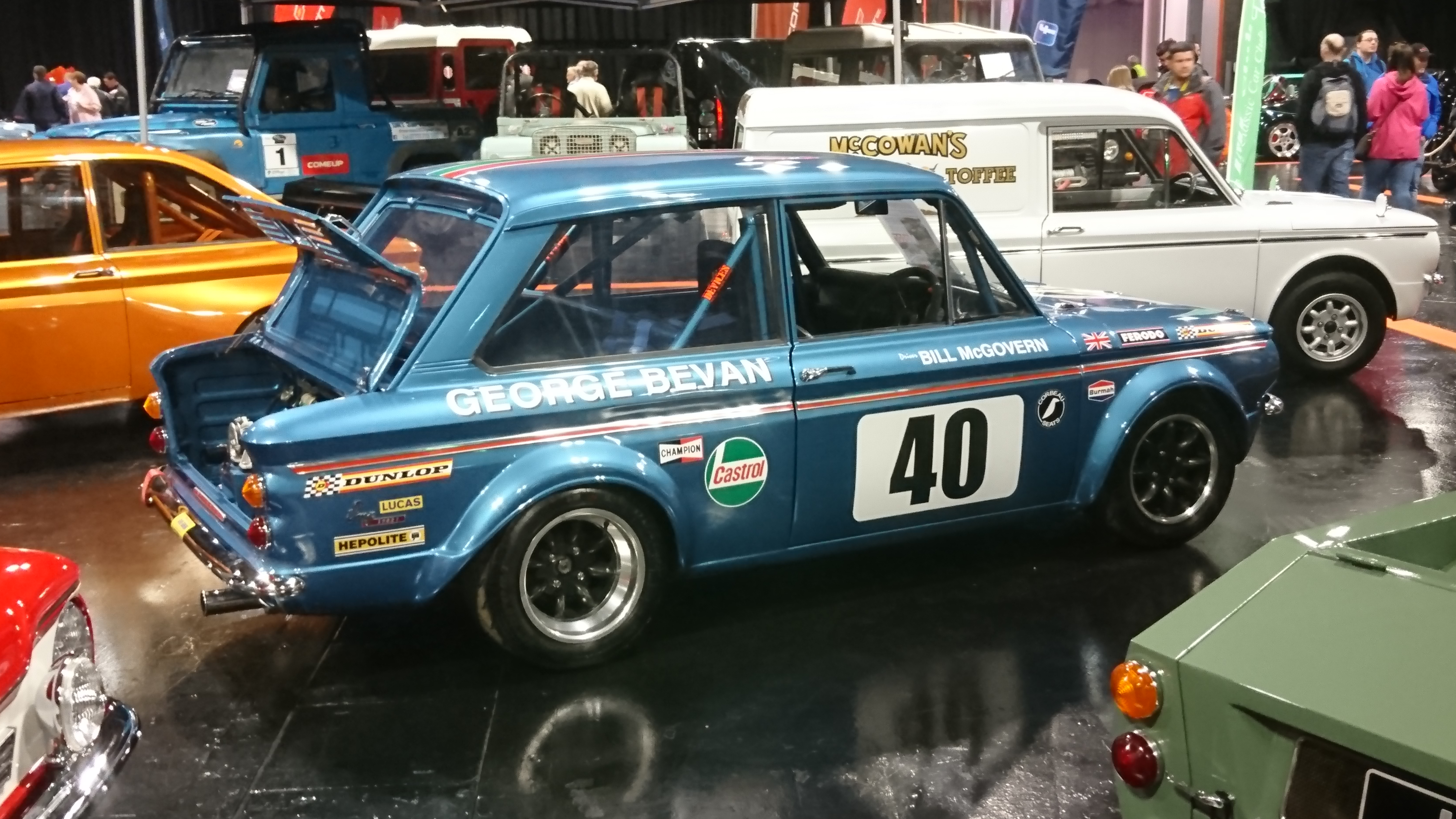 Bill McGovern's Hillman Imp from the British Saloon Car Championship, pictured at the Ignition Festival of Motoring - held at the Scottish Event Campus - on 5 August 2017.